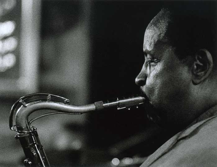 Ed Wiley Jr. performing at Blues Alley in Washington, D.C., 1996.